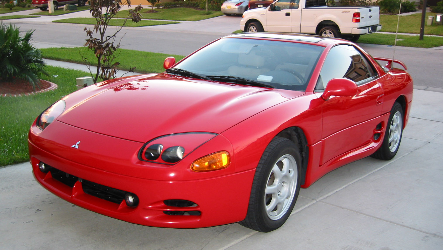 A red Mitsubishi GTO.